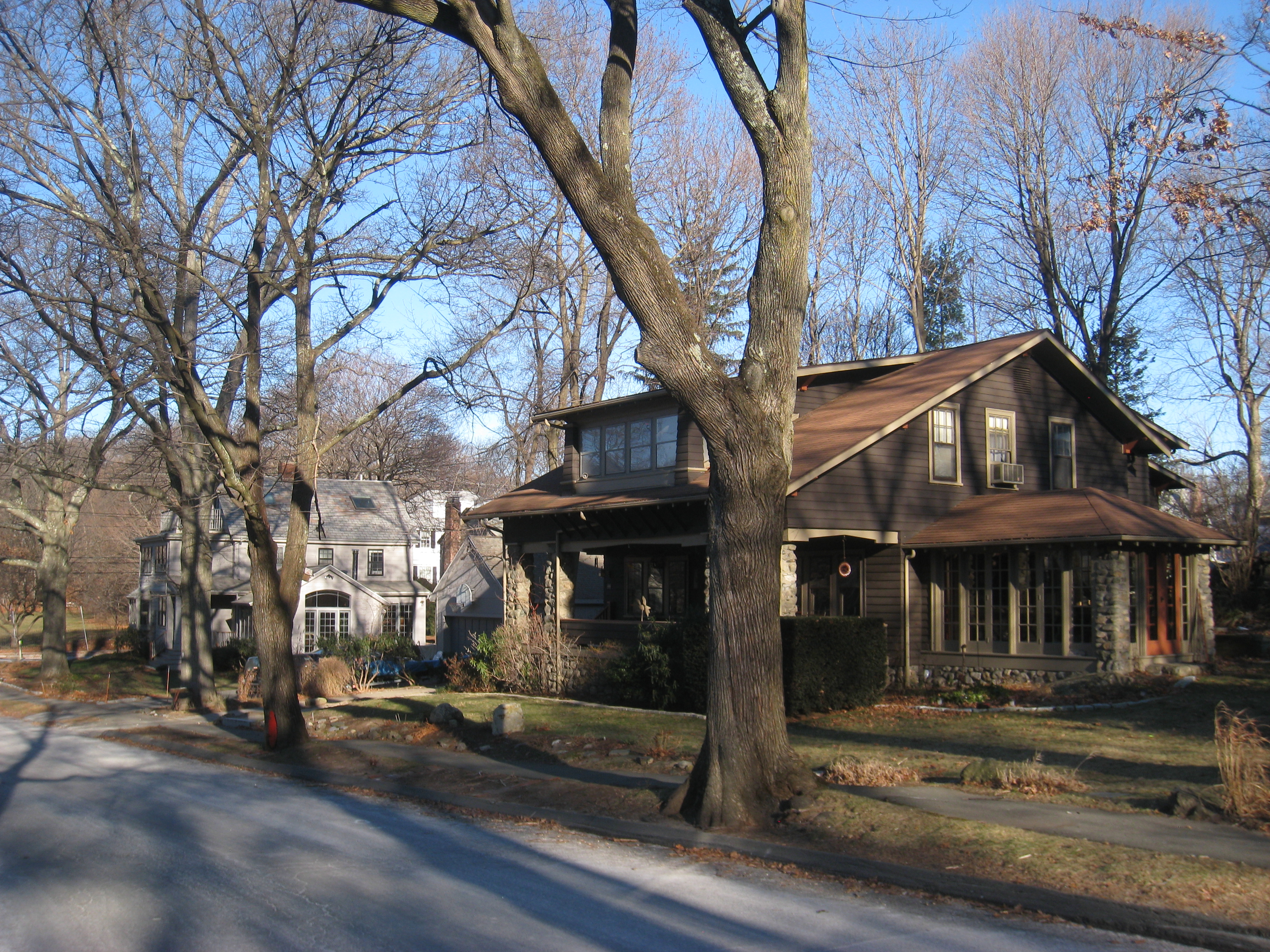 Representative houses, Kensington Park Historic District, Arlington, Massachusetts, USA. Building listed on the National Register of Historic Places.